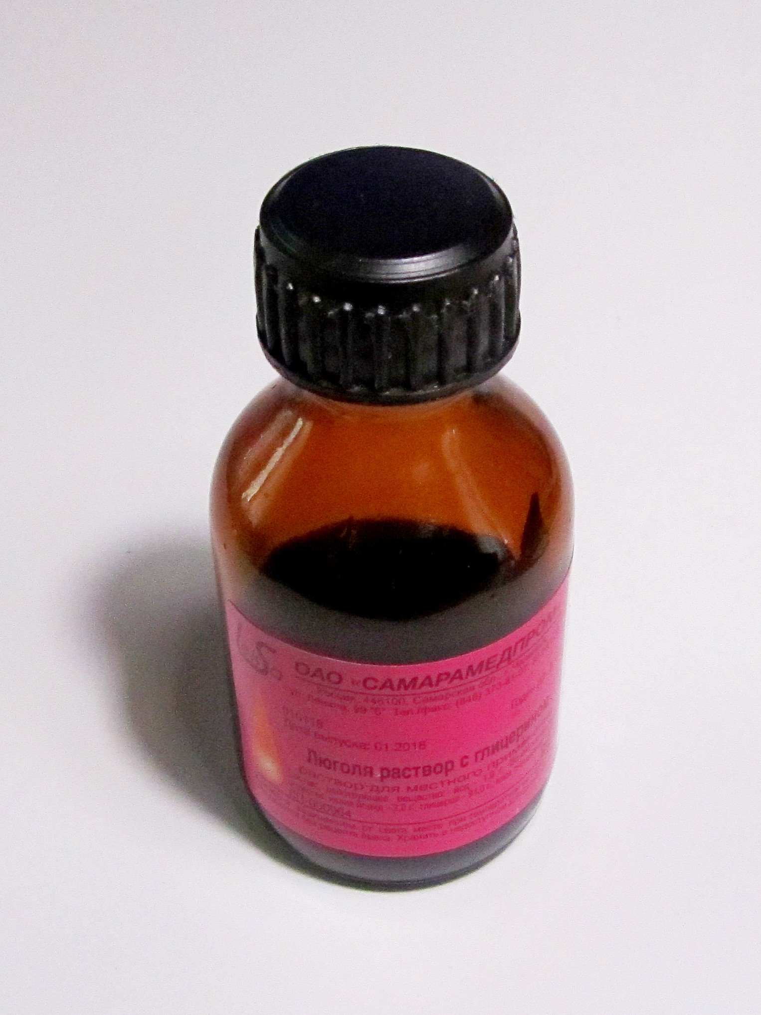 Lugol's iodine